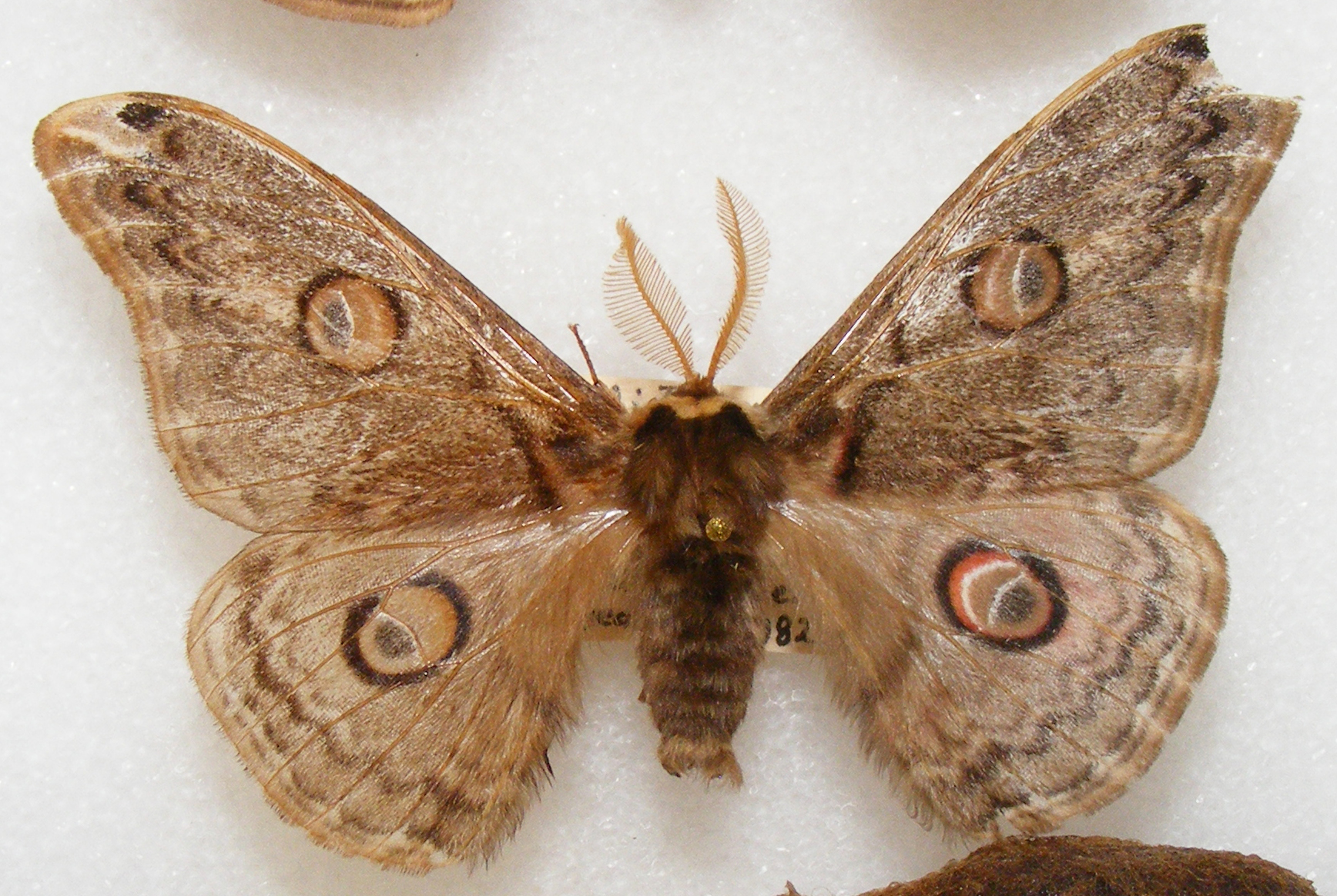 Caligula lindia adult male from the Texas A&M University Insect Collection